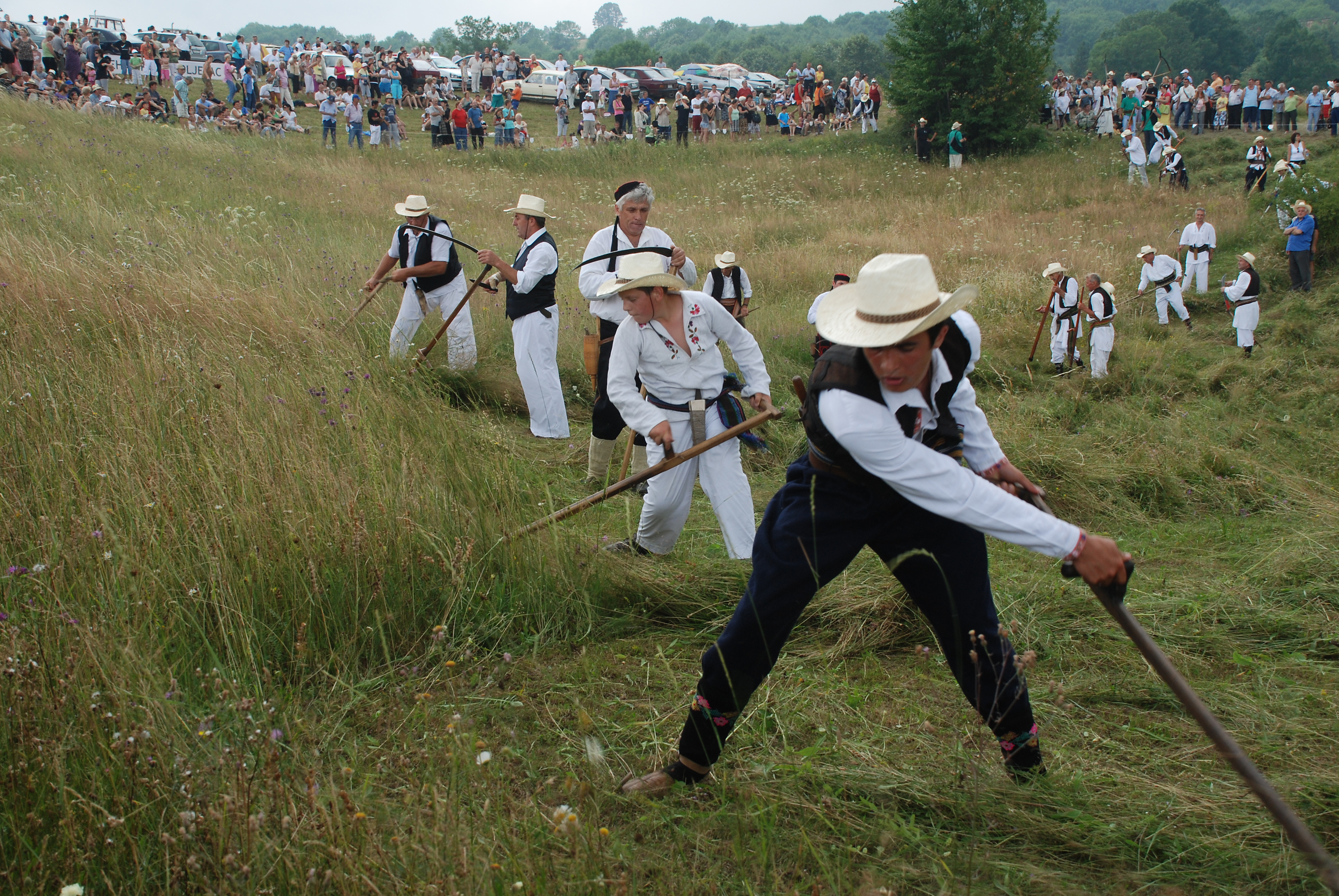 Suvobor - Rajac - Western Serbia - The event Mowing on Rajac 14